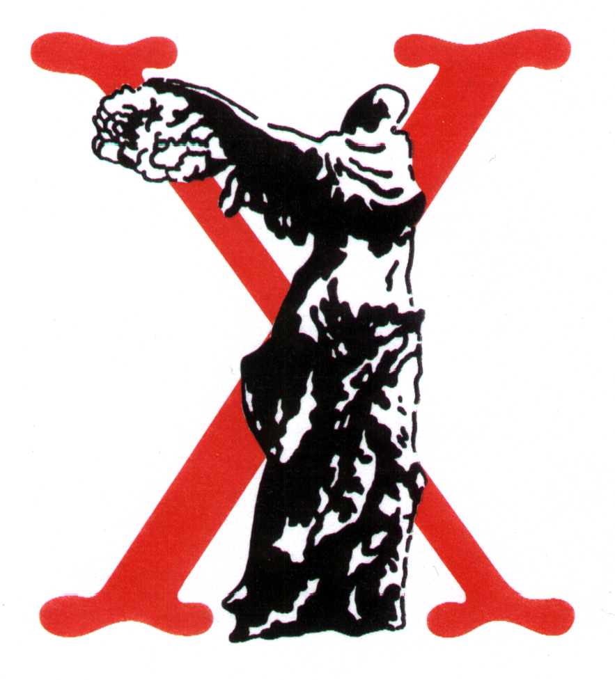 Cancellation of the Nike Zeus program in 1963 led to the formation of the Nike-X project office in February 1964, along with this new project emblem.